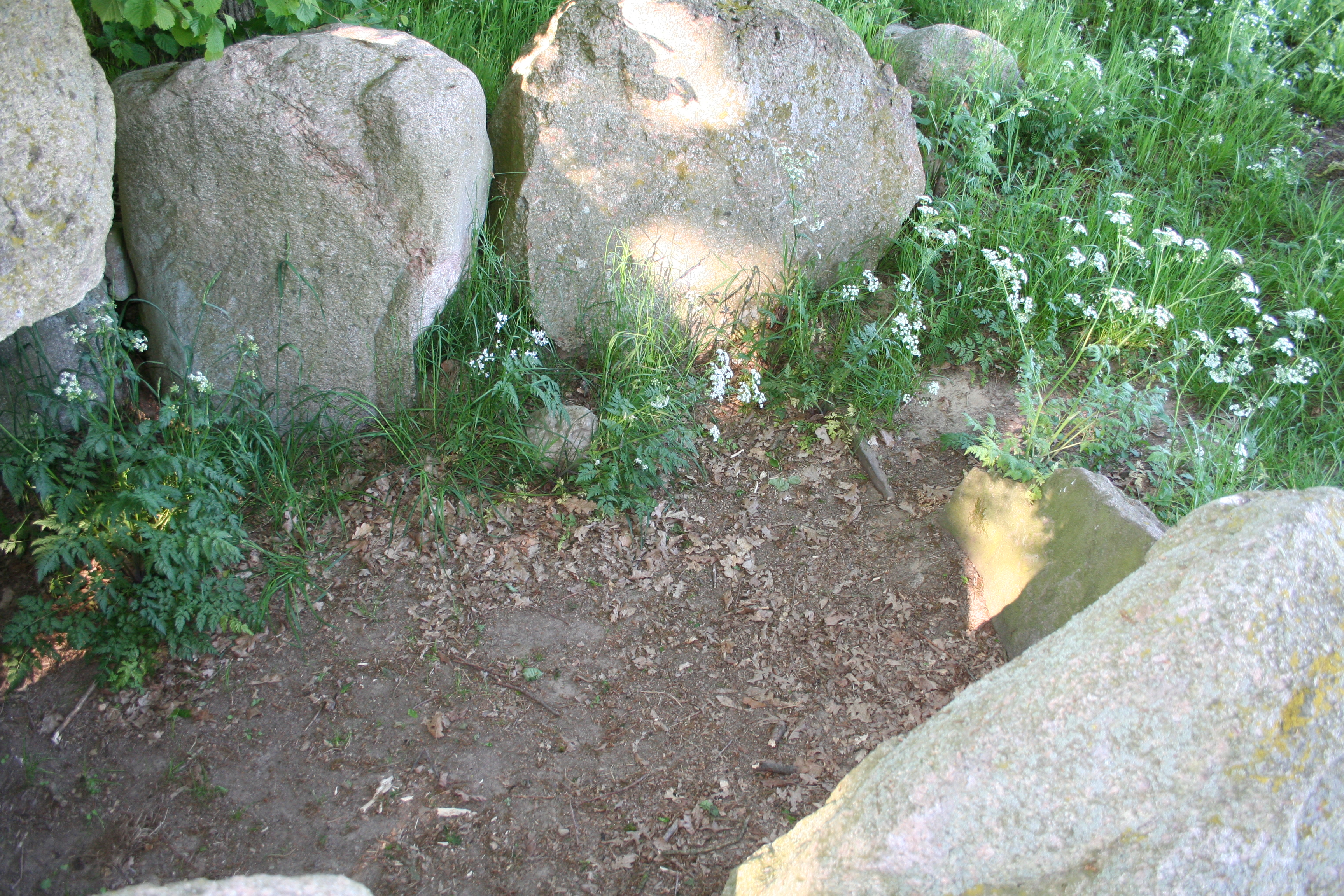 Megalithic tomb Lancken-Granitz 3